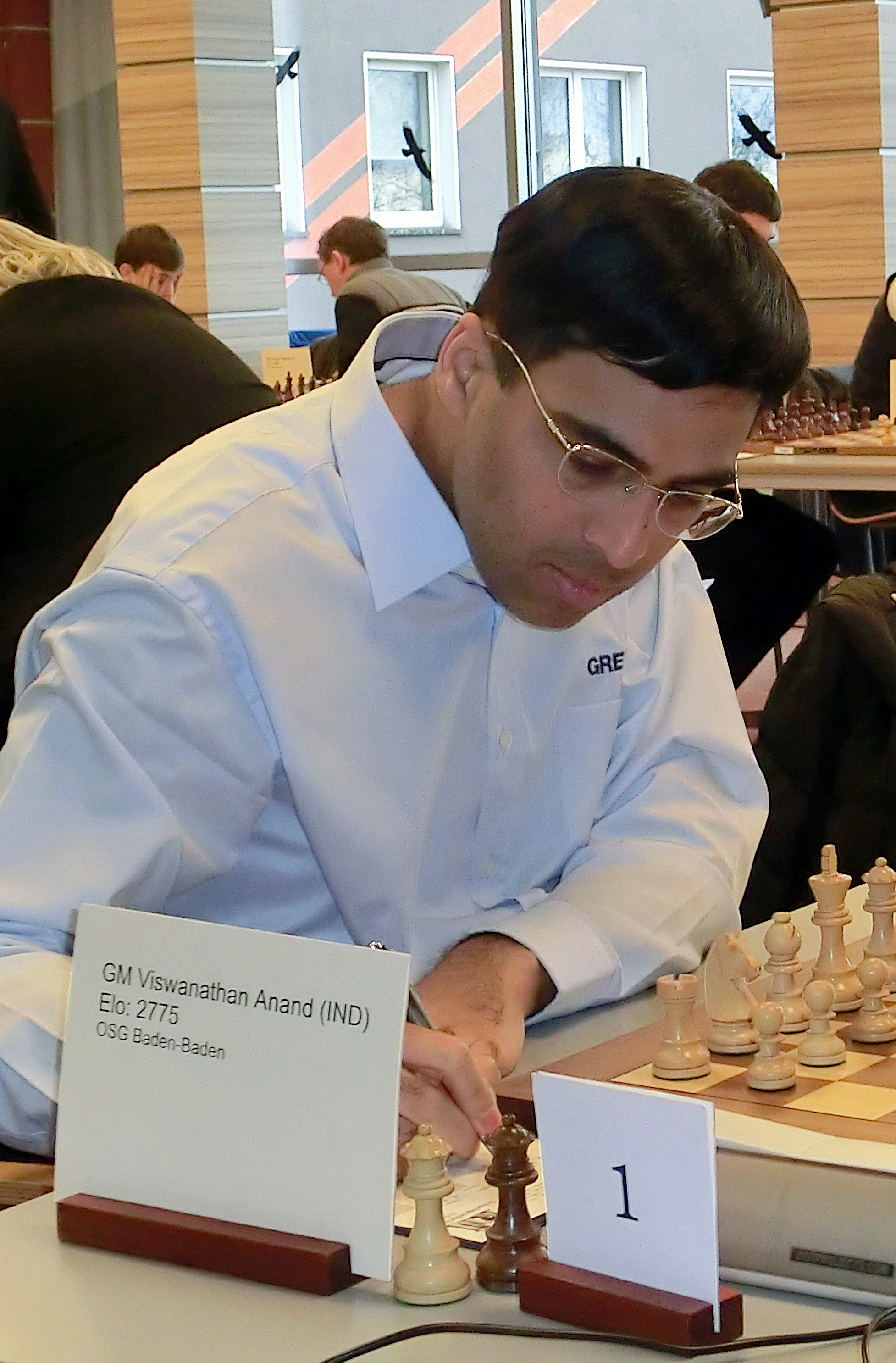 Viswanathan Anand, chess grandmaster from India